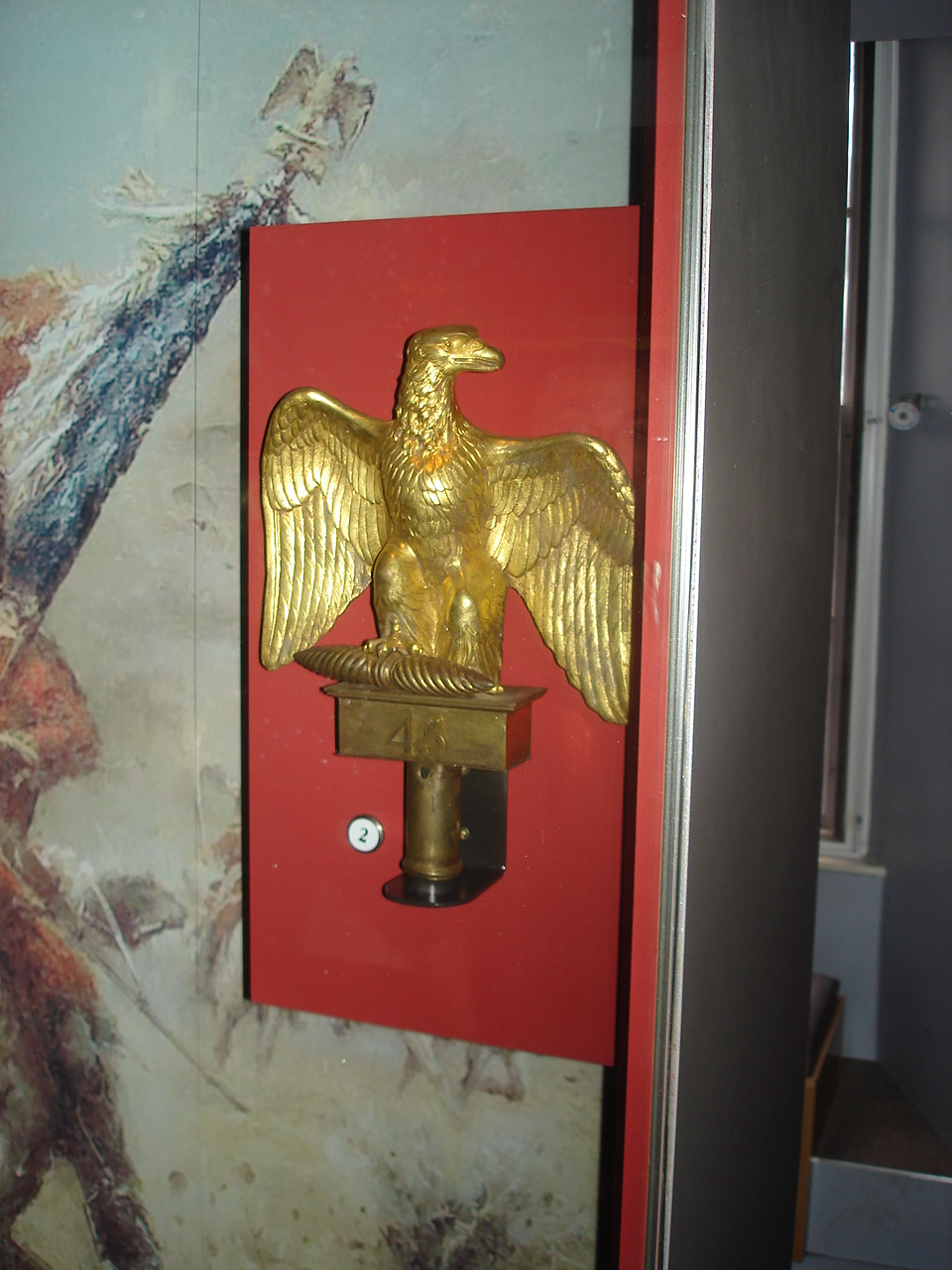 The Imperial Eagle of the French 45 Line Regiment captured at the Battle of Waterloo and displayed in the Royal Scots Dragoon Guards Museum in Edinburgh.